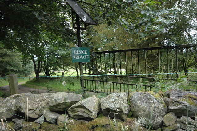 Entrance road to Elsick House One of the many entrance roads/tracks to Elsick House. Taken from the edge of the public road looking north.